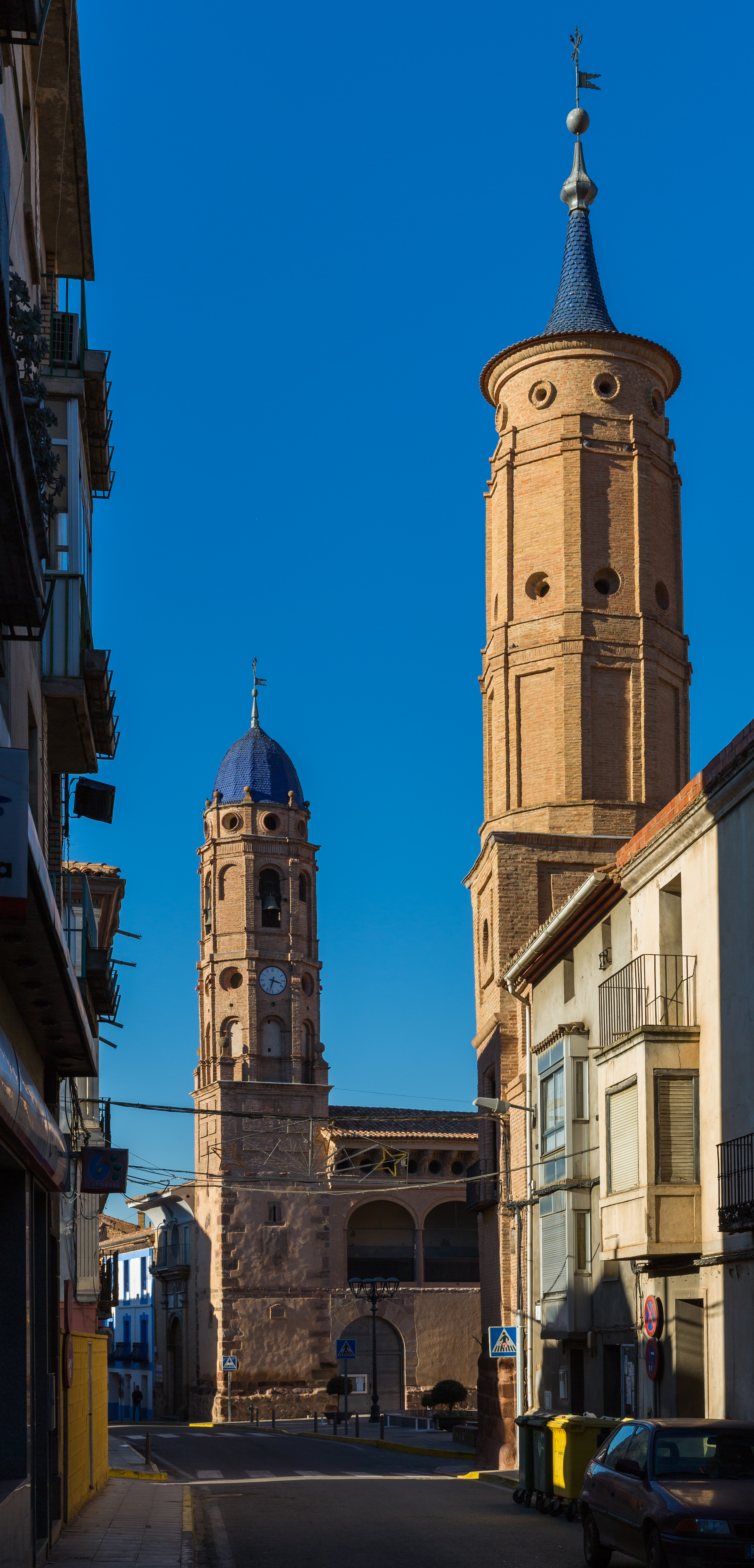 Palace of the Count of Morata, Morata de Jalón, Zaragoza, Spain